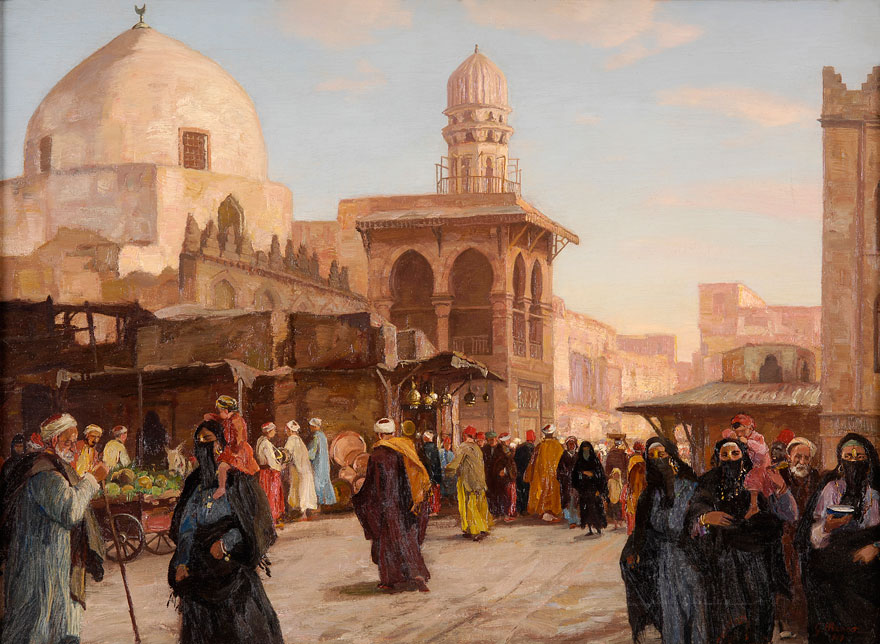 Illustration of al-Muizz street, with Sabil-kuttab of Khusraw Pasha and the Madrasa-Mausoleum of al-Silah Ayyub. Kairo (Kalaun Moschee). Signiert. Öl/Lwd., 49 x 68 cm